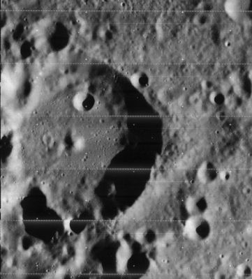 LO-IV-088-H3 On the southwest, Goodacre overlaps 87-km Gemma Frisius, with 16-km Goodacre G (partially visible here in the lower left corner) straddling the border. Several other satellite features named after Goodacre are also visible in this view.